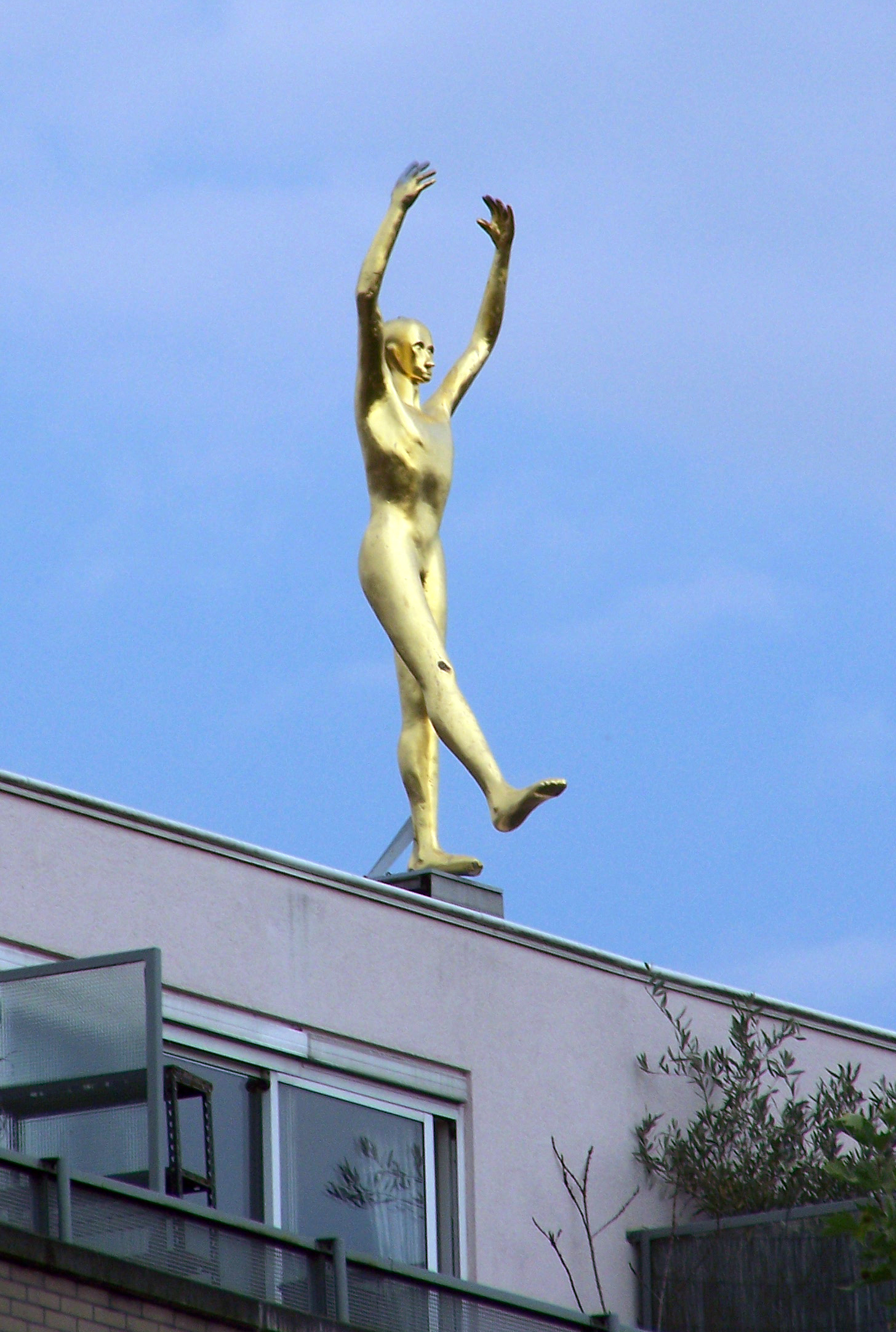 Sculpture "Danser" (Dancer) by Henk Visch made in 1992. Placed on top of the appartementbuilding at the Johanna ter Meulenplein in Amsterdam.